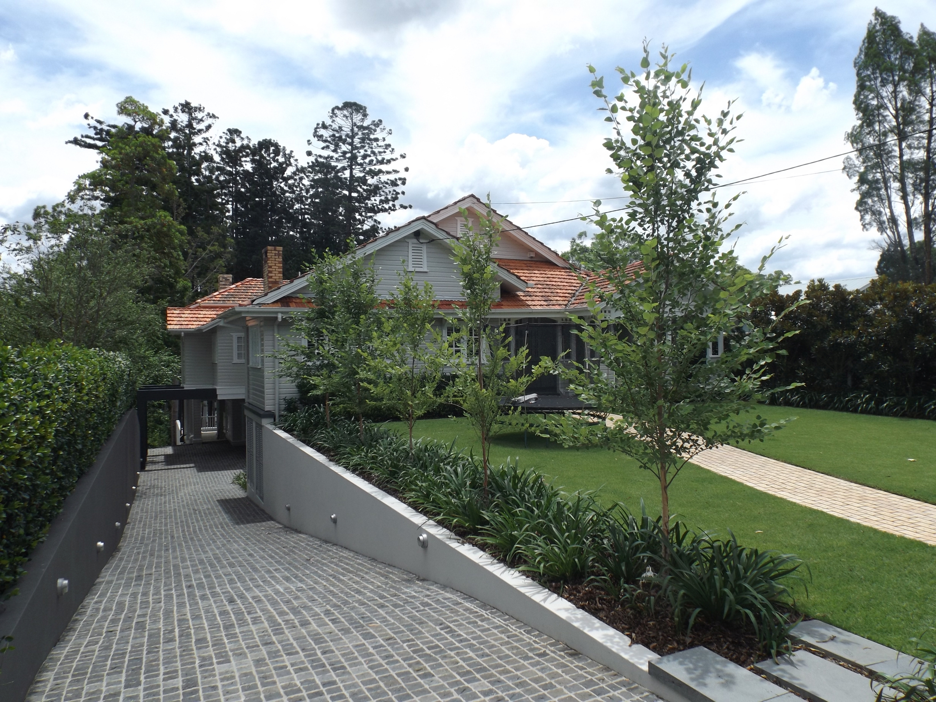 Photo of Swain House and driveway at Chelmer, Brisbane, Queensland, Australia.